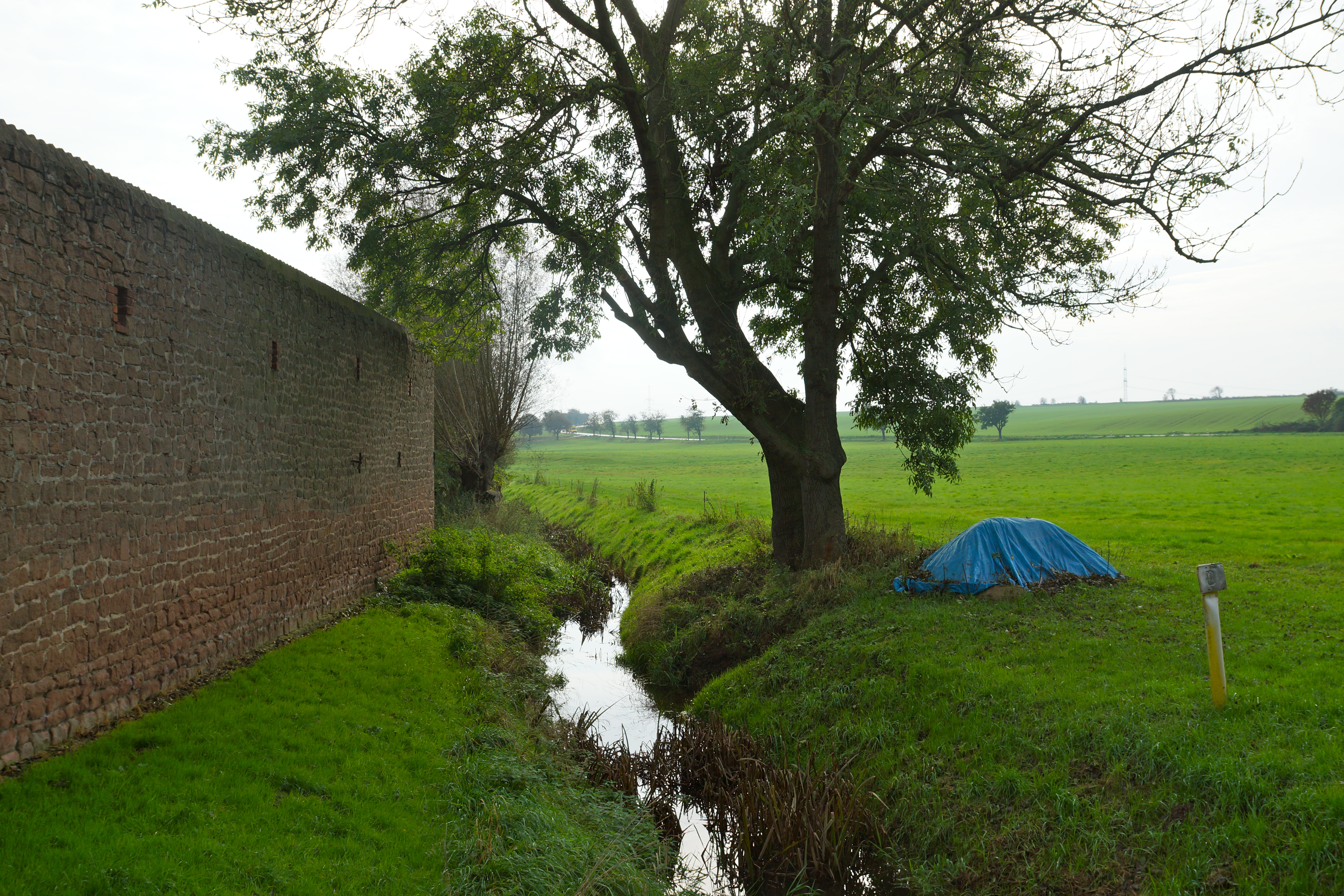 Altenhausen (Emden), Germany: The river Beber